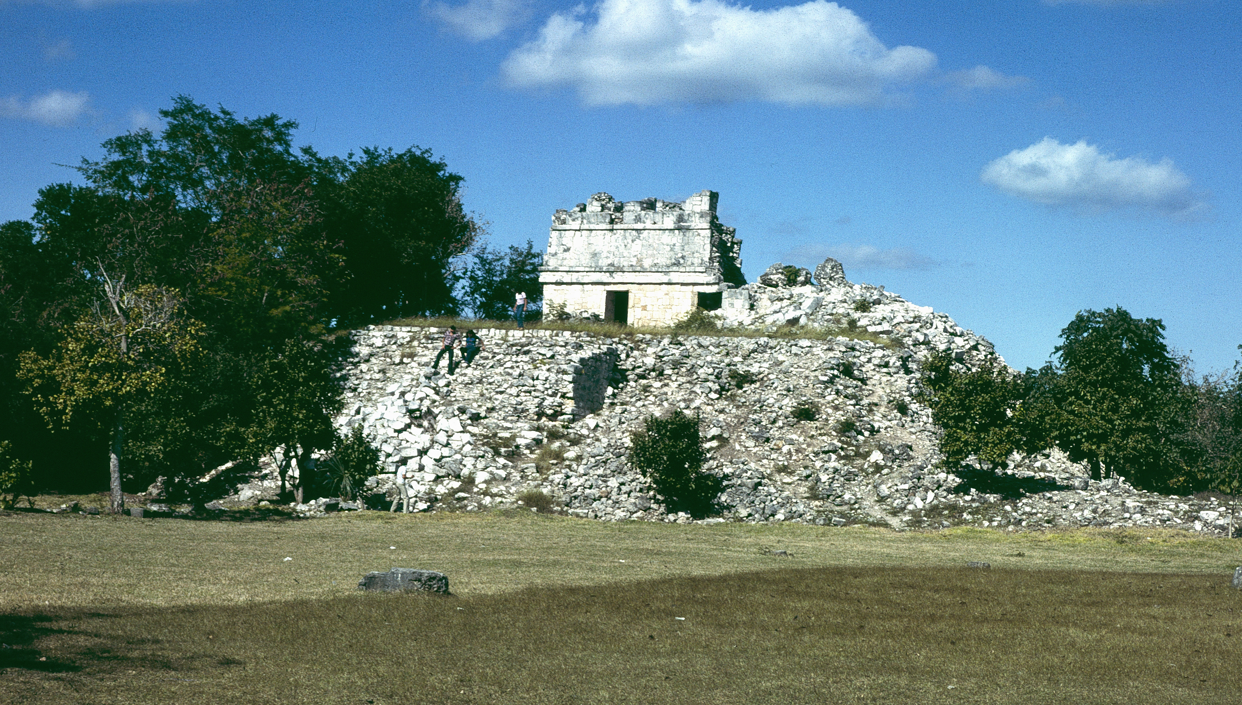 Chichen Itza, Yucatan, Mexico: Casa del Venado